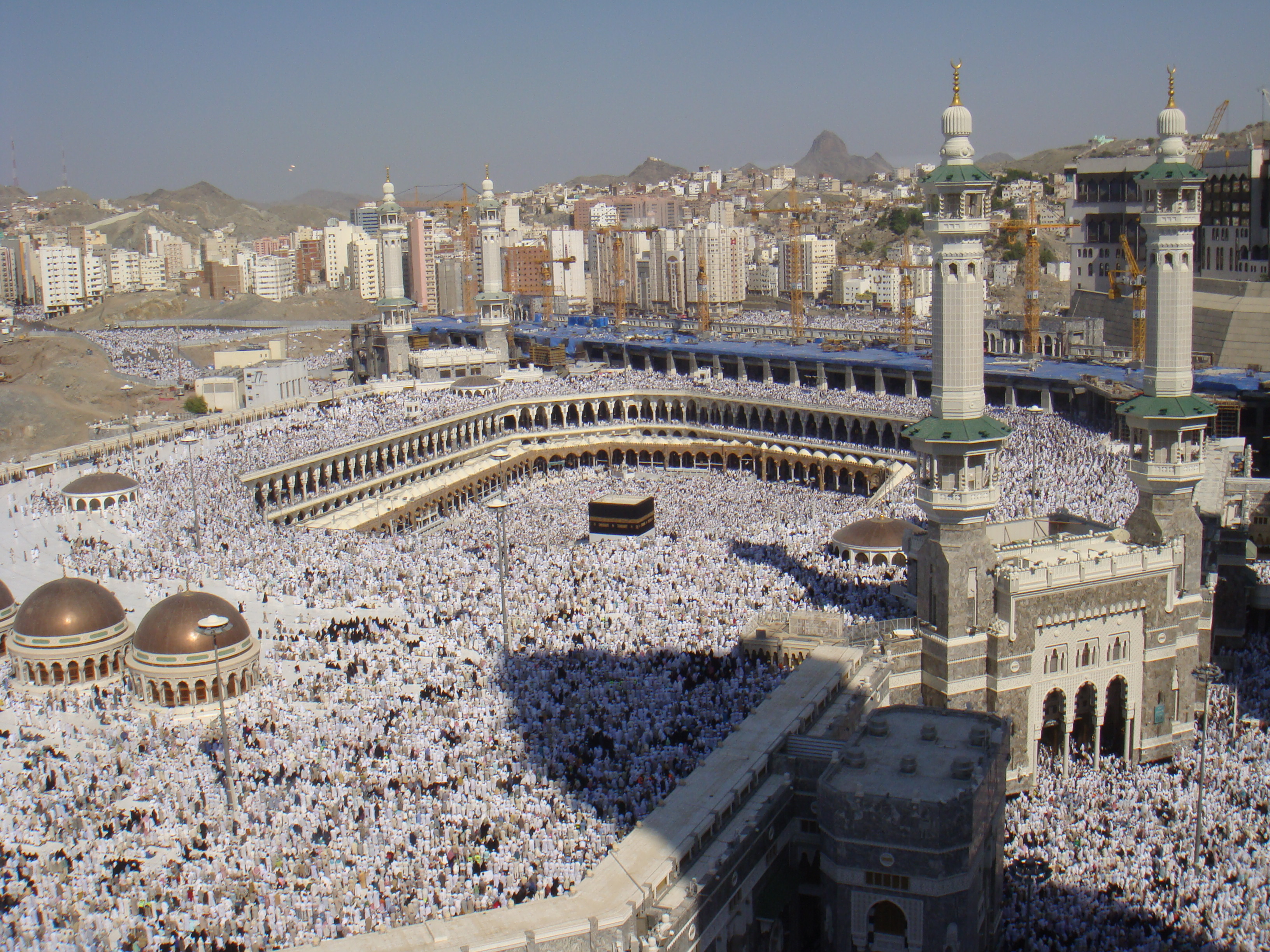 The Kaaba at al-Haram Mosque during the start of Hajj